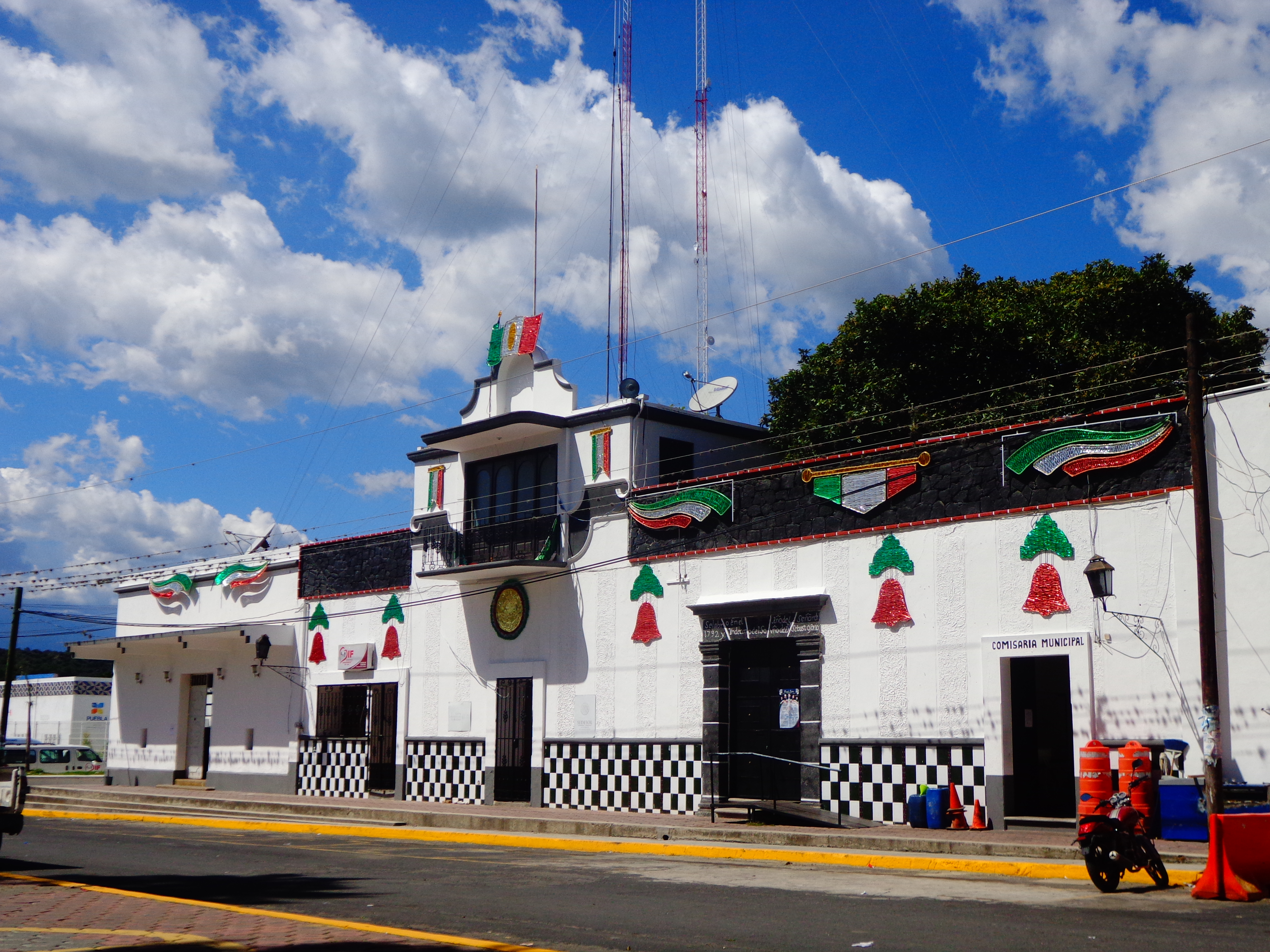 Municipal Palace of the Honorable Town Hall of the Municipality of San Juan Tianguismanalco This monument is used by the municipal presidency, the police station and the assembly hall. It was built in the year of 1792, in the image it is decorated according to the patriotic celebrations, it represents the culture and the patriotism of this community growing its traditions. It is located in the town of San Juan, Municipality of Tianguismanalco, State of Puebla, in the country of Mexico.